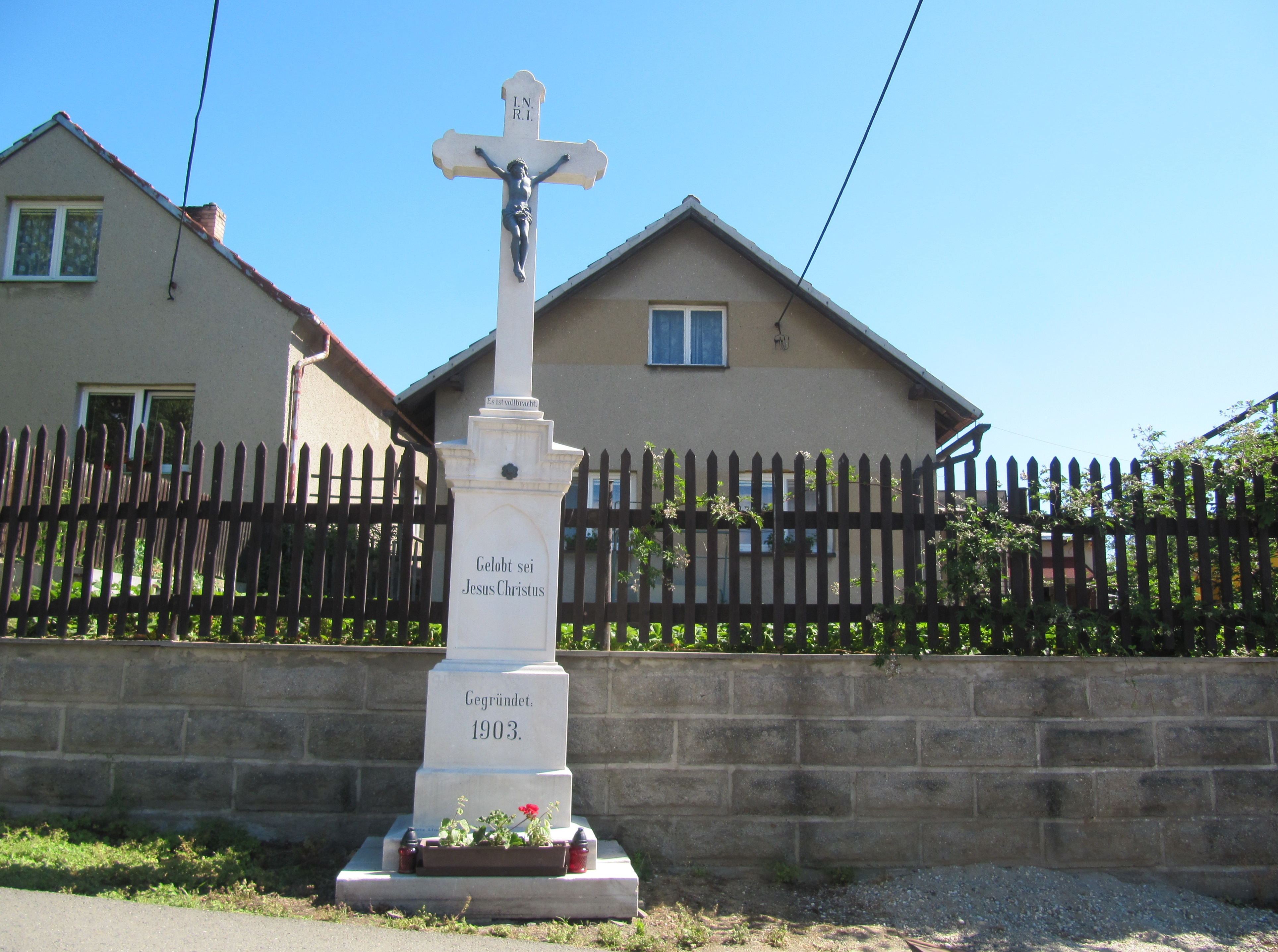 Fulnek, Nový Jičín District, Czech Republic, part Kostelec.